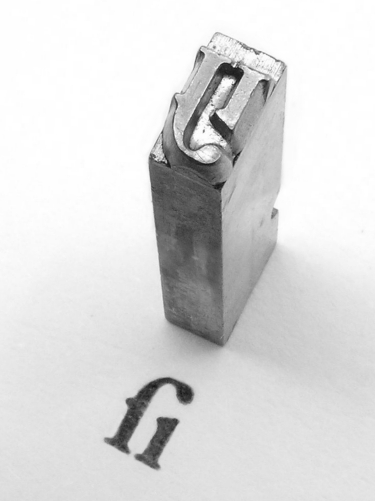 long s - i ligature type in 12p Garamond